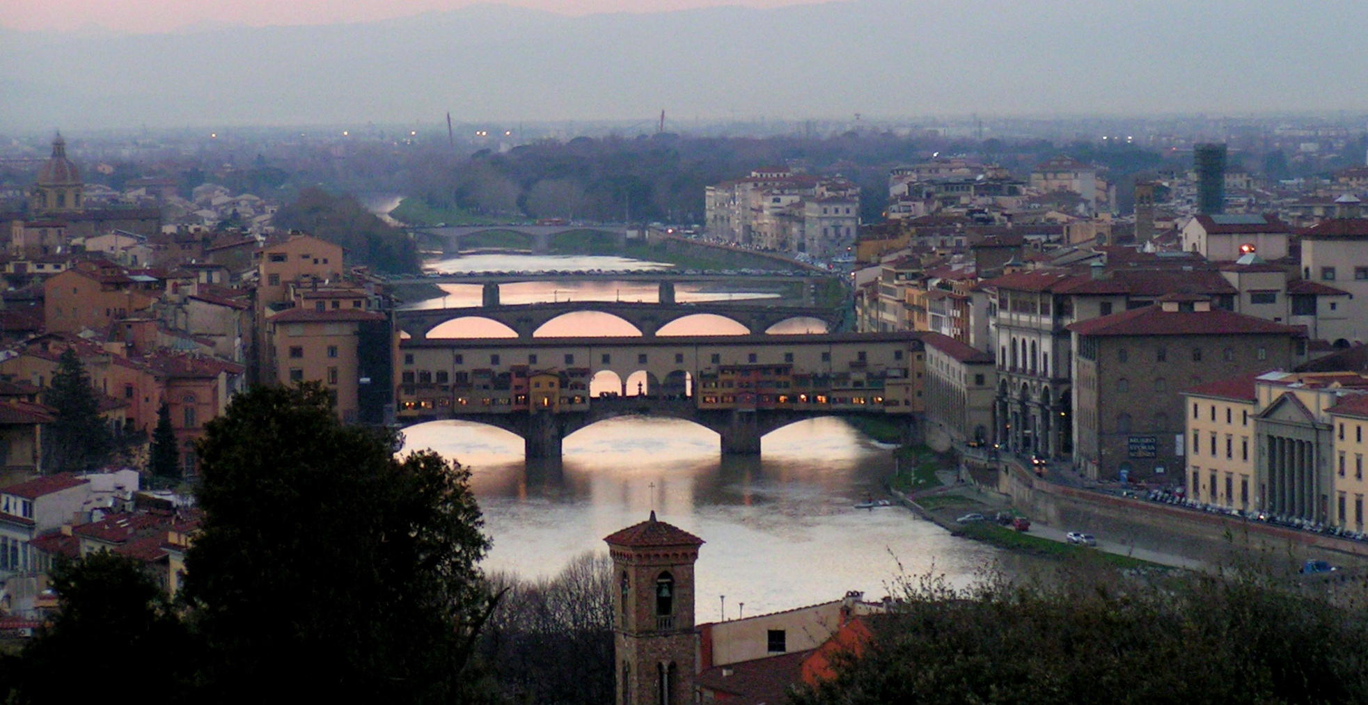 The bridges of Florence at sunset from Piazzale Michelango